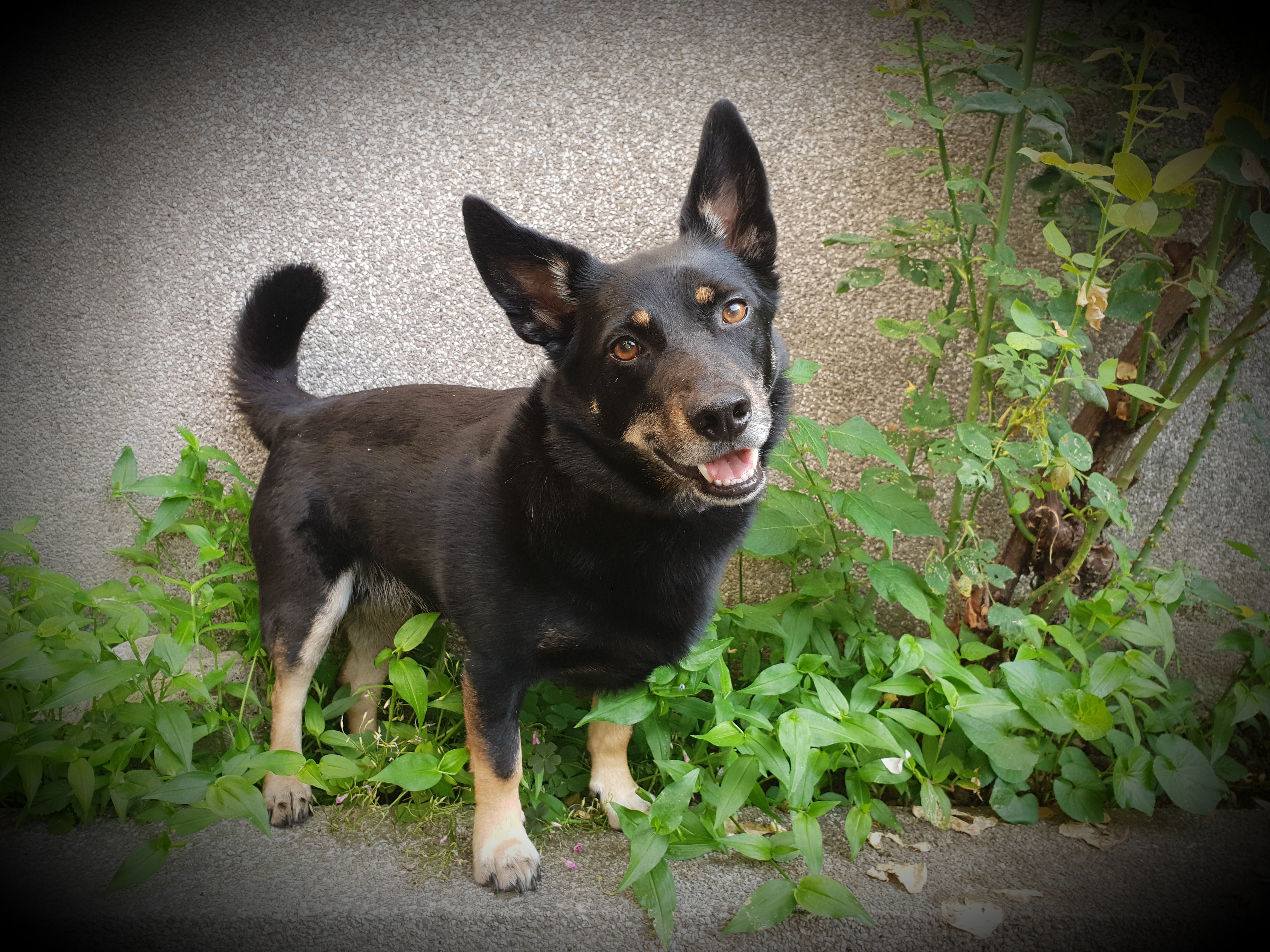 Mali međimurski pas